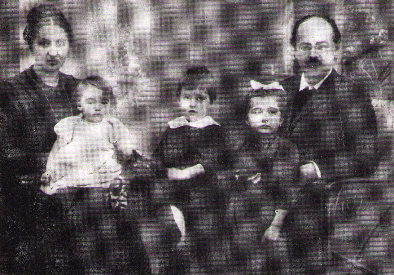 Emil Fuchs (1874-1971) with wife and the three older children